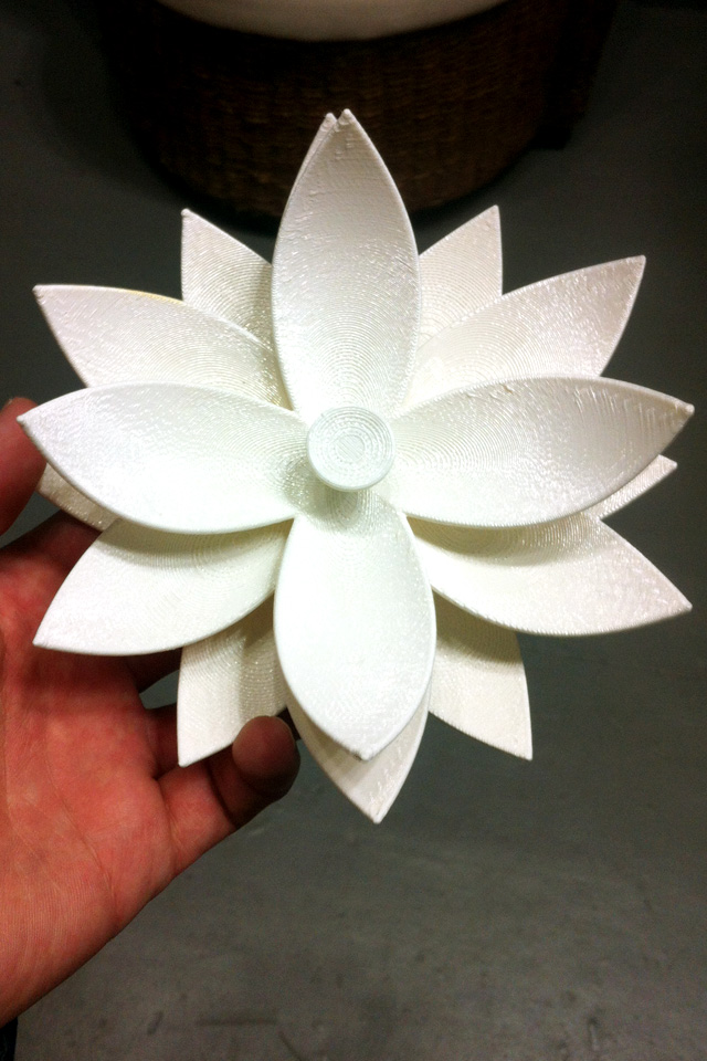 flower model made with a 3D printer